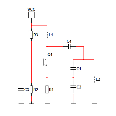 This is a circuit of a collpitts-oscillator with common base